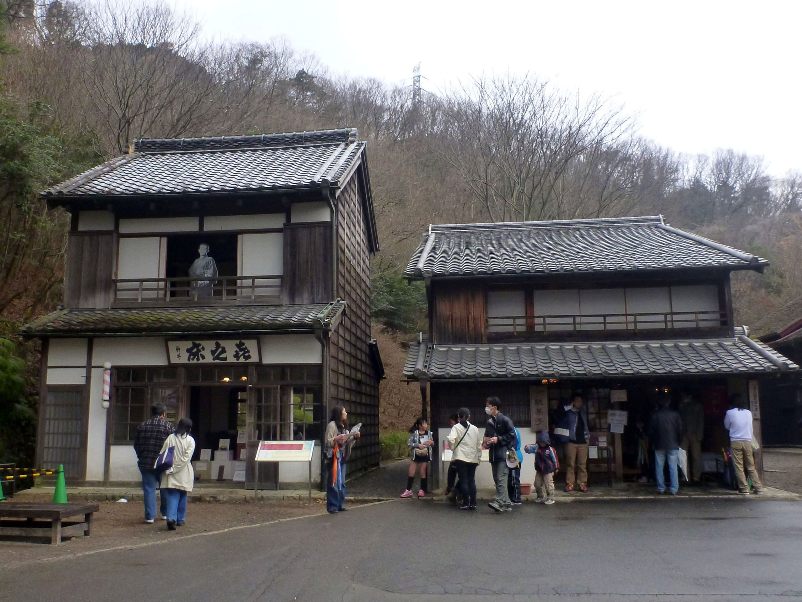 Summering House of Lafcadio Hearn to the right